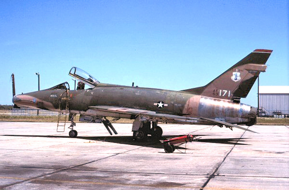 122d Tactical Fighter Squadron North American F-100D-75-NA Super Sabre 56-3171. Retired to MASDC Mar 9, 1979 as FE0525. Later Converted to QF-100D target drone.